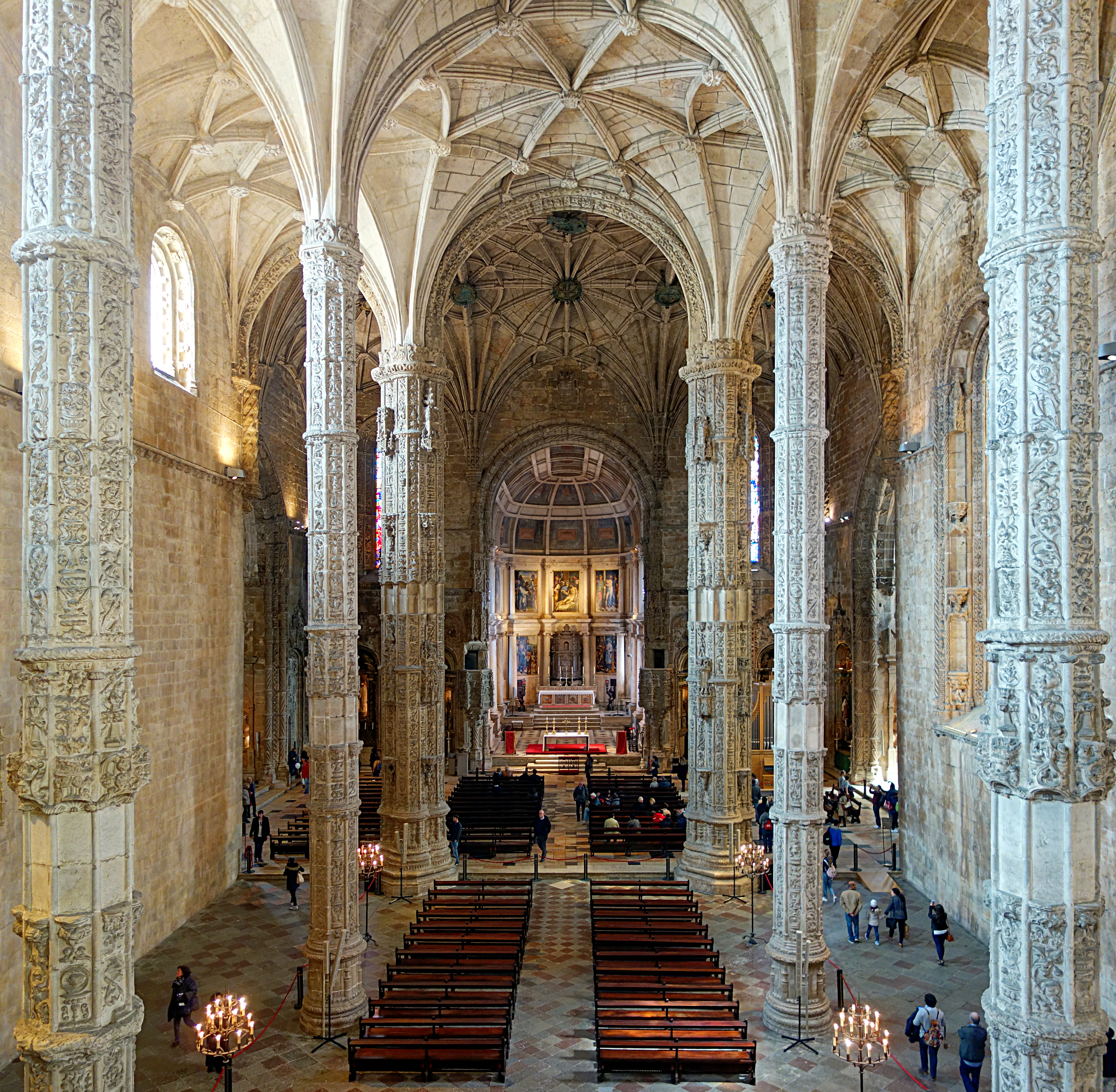 Nave of Jerónimos Monastery's Santa Maria church in Belém, Portugal.